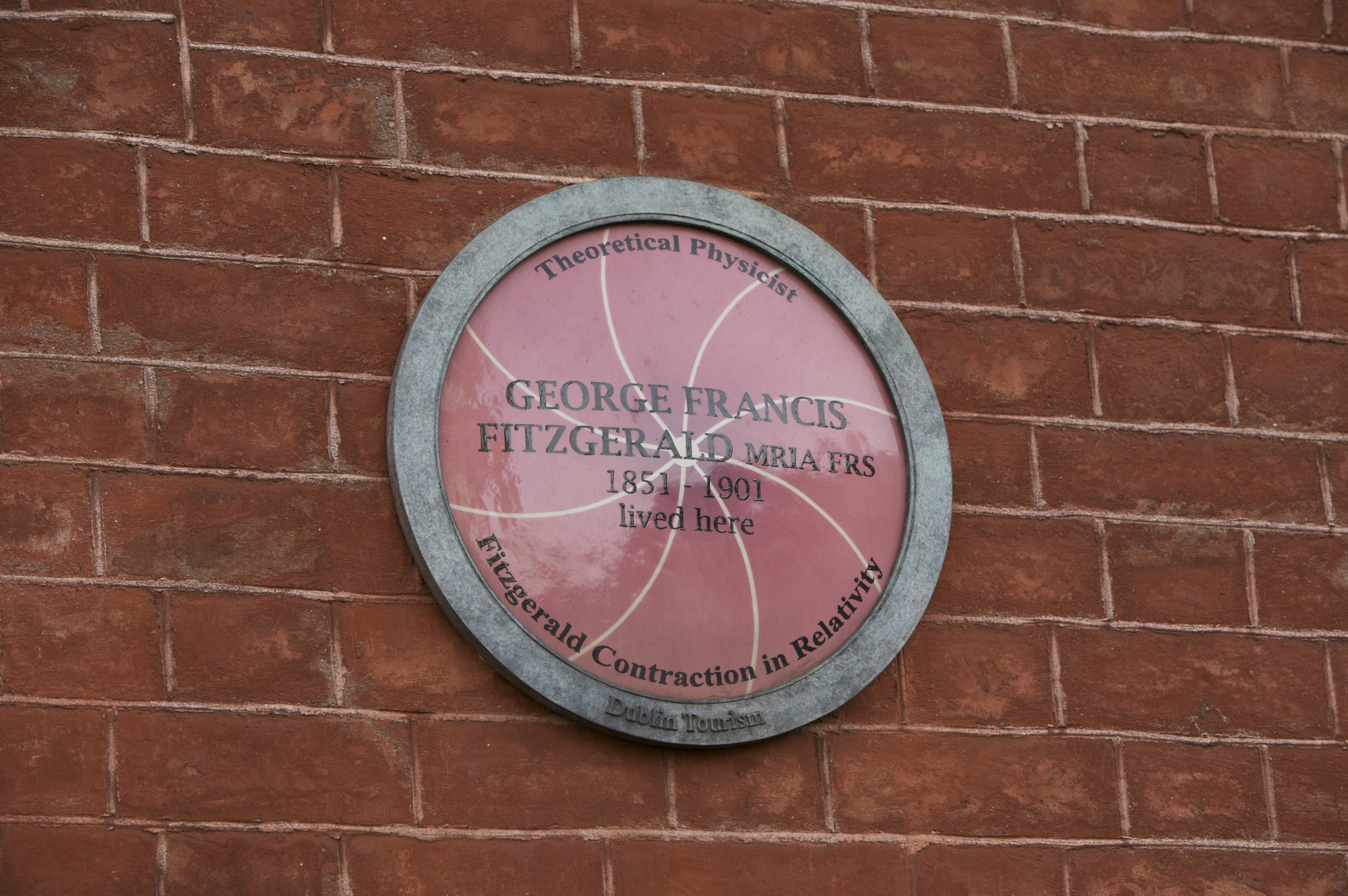 Plaque on the front of no.7 Ely Place, Dublin, marking the fact that George Francis Fitzgerald lived there during his lifetime.